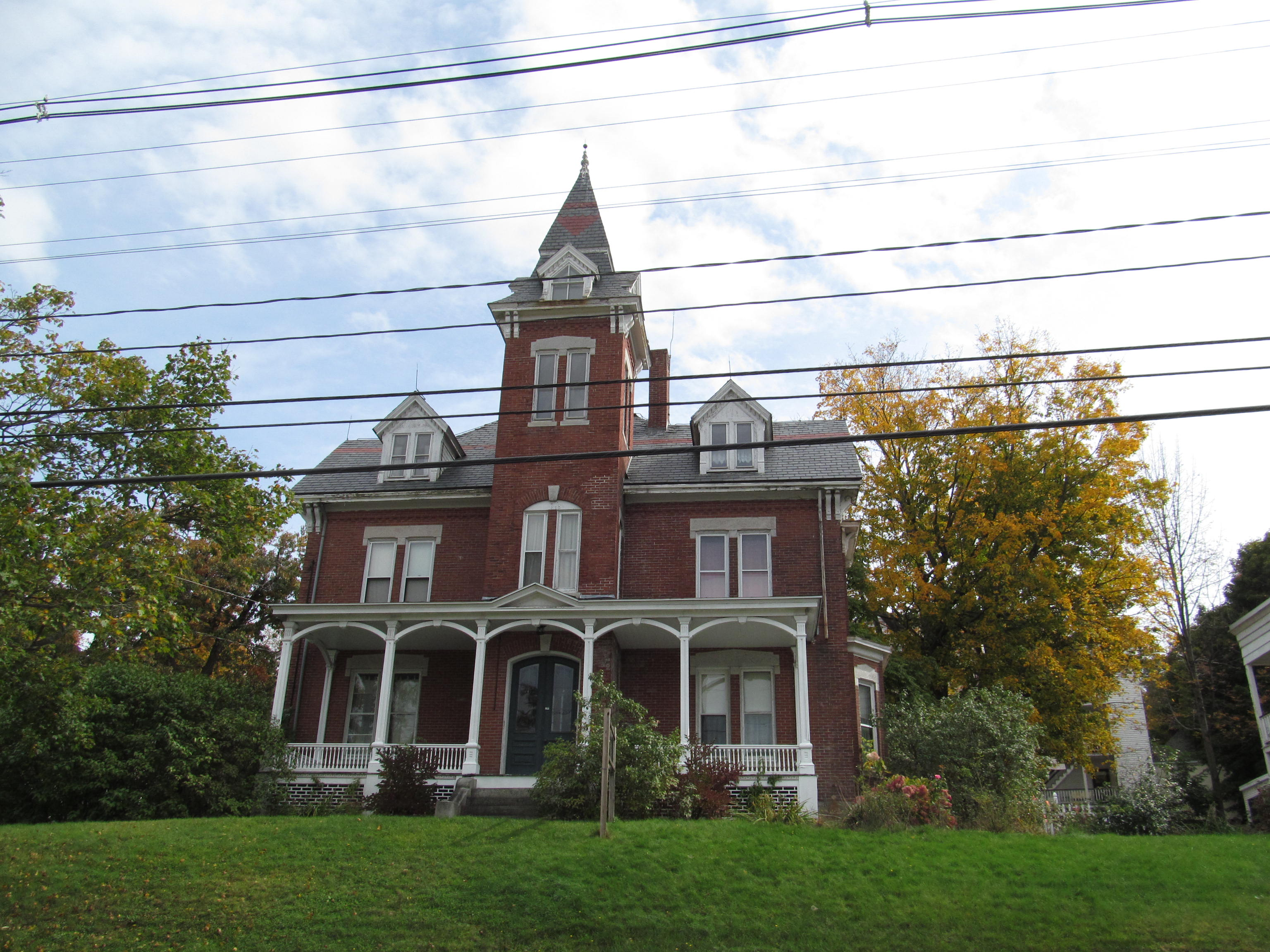 Typical home of Lewiston, Maine